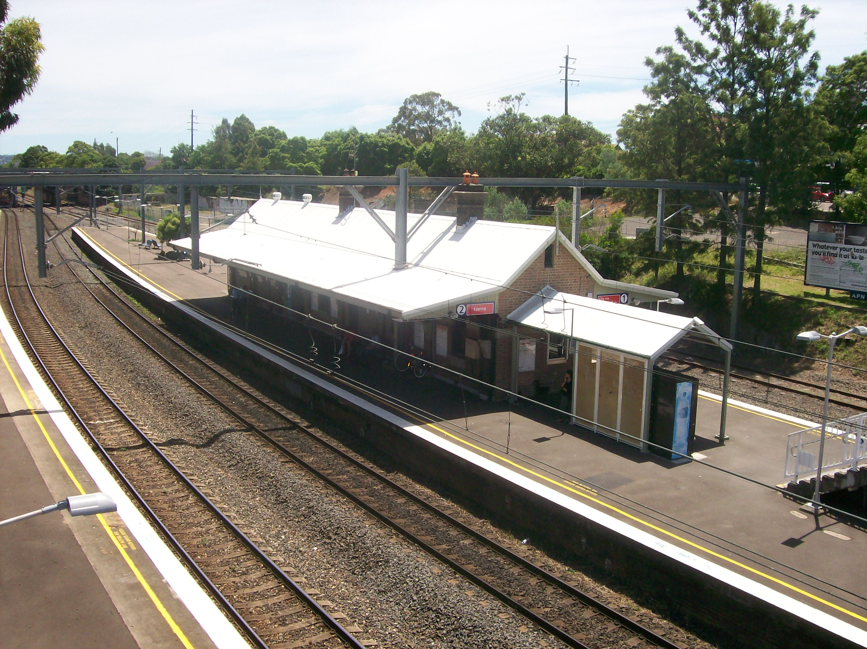 North Strathfield railway station